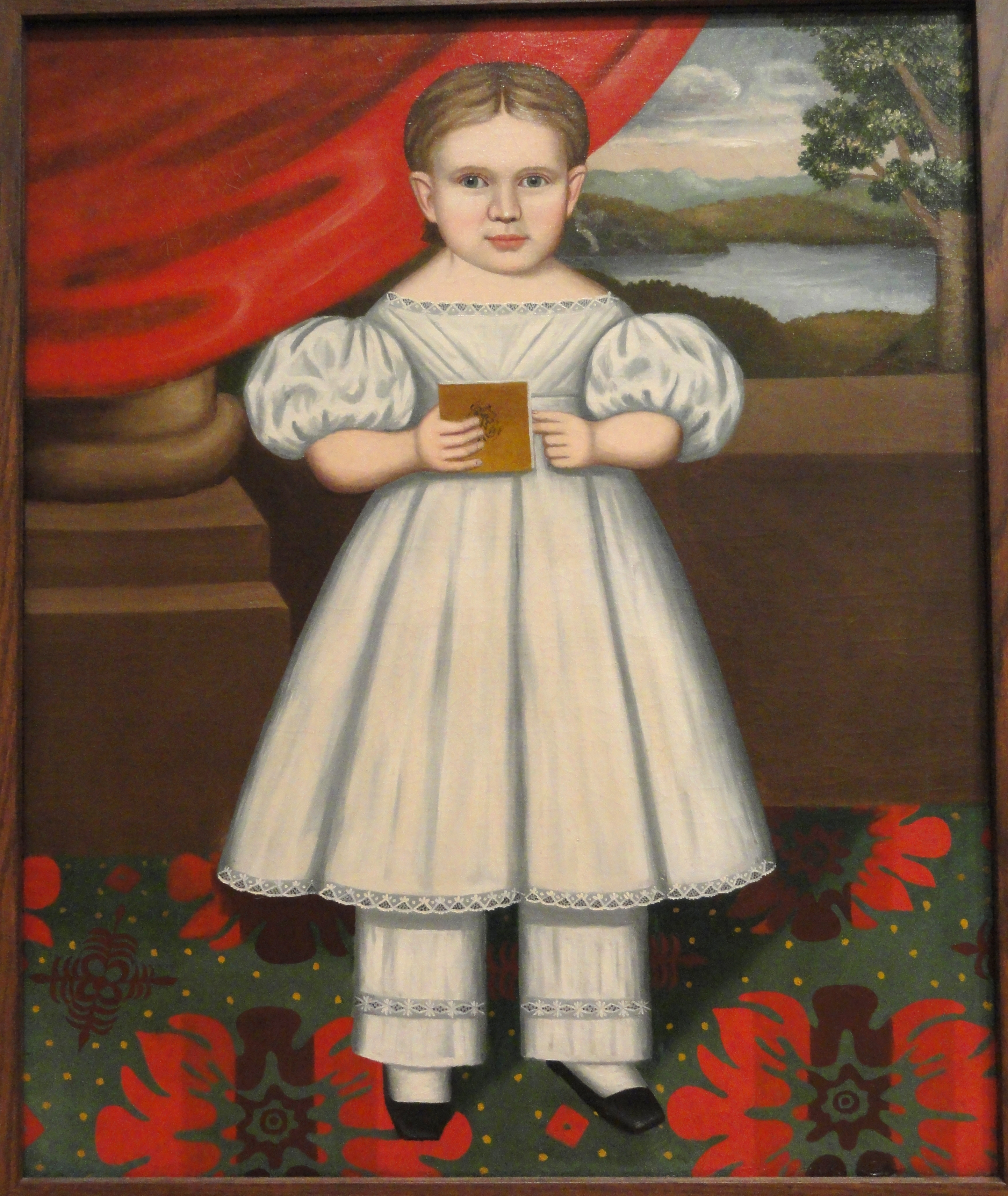 Portrait of Sarah Elizabeth Ball wearing a white dress and pantalettes.